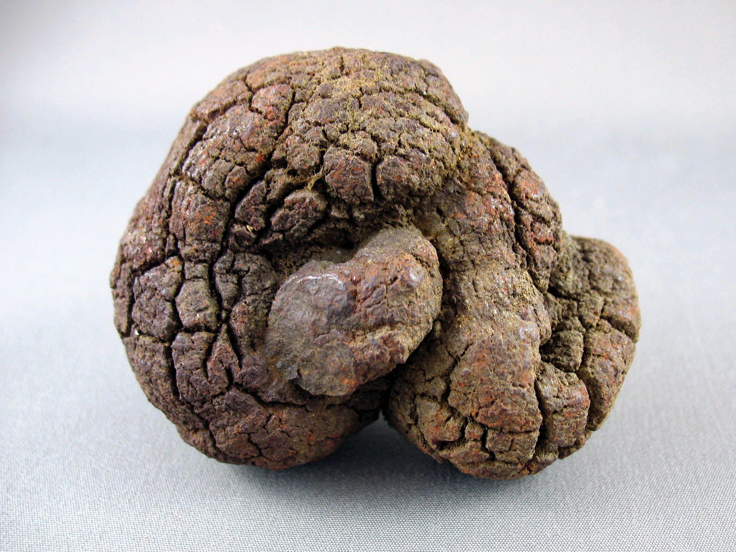 Fossil coprolite from the Whitemud Formation in Saskatchewan, from the private collection of the author